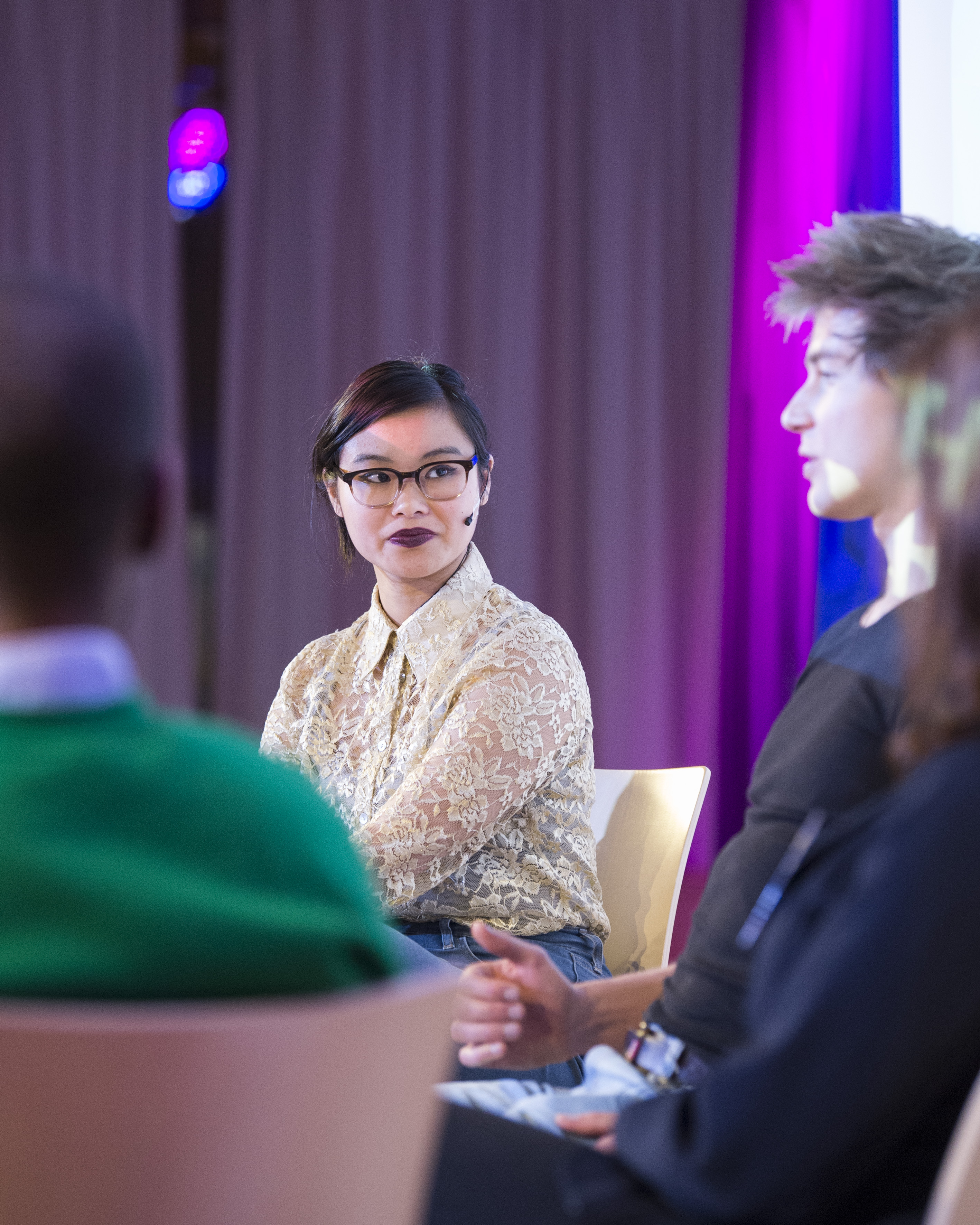 Nhi Le, Jugendpresse Deutschland